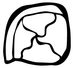 Maya:glyph:logogram:calendric:Tzolkin:Day18:Etznab:codex+W:v01. Img created by CJLL Wright.